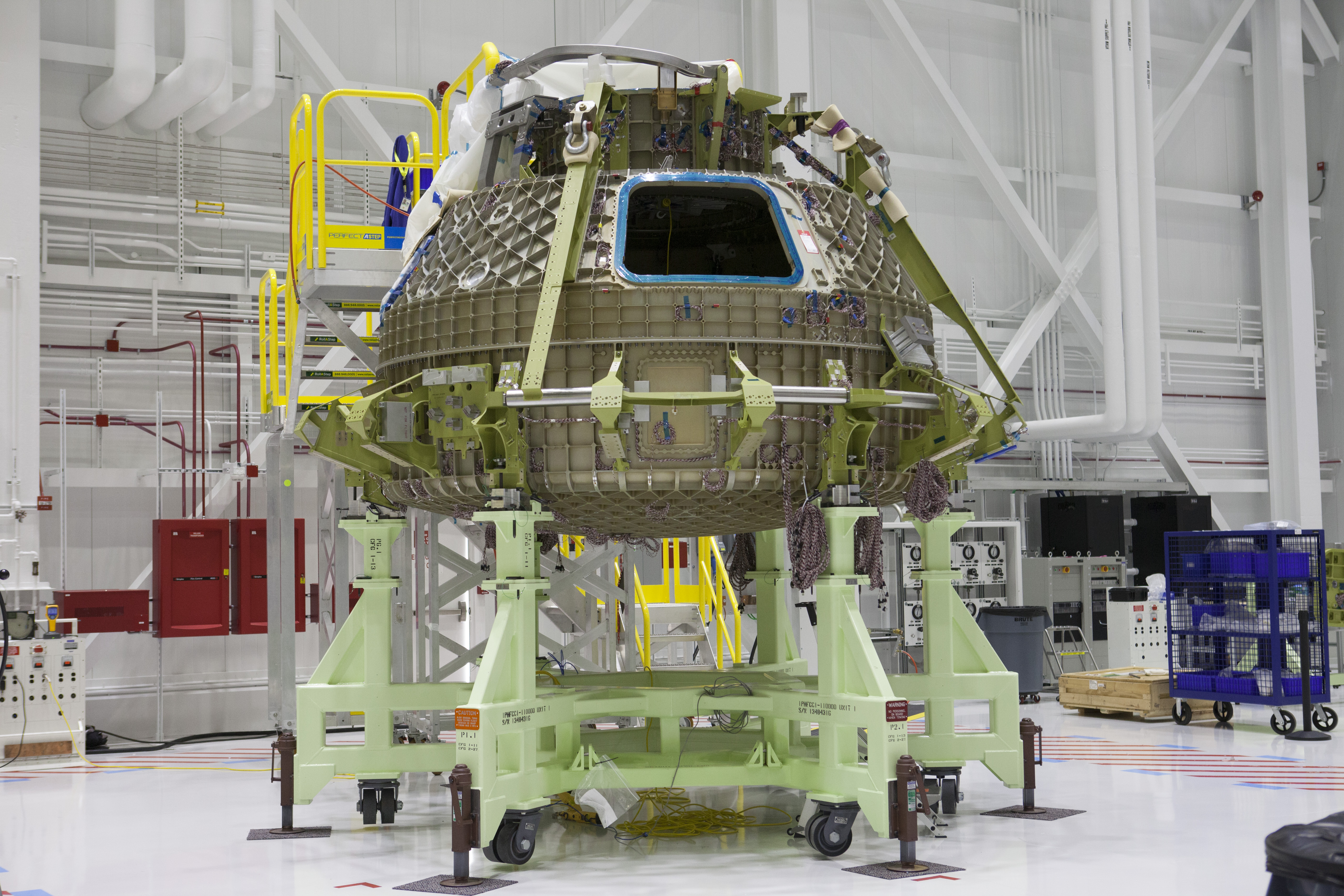 The first hull of the Boeing CST-100 Starliner Structural Test Article rests in a work stand inside the company’s modernized Commercial Crew and Cargo Processing Facility high bay at NASA’s Kennedy Space Center in Florida. The facility will serve as a hub for the company’s CST-100 Starliner spacecraft operations, making it an integral element of the Starliner program to take astronauts to and from the International Space Station from American soil.